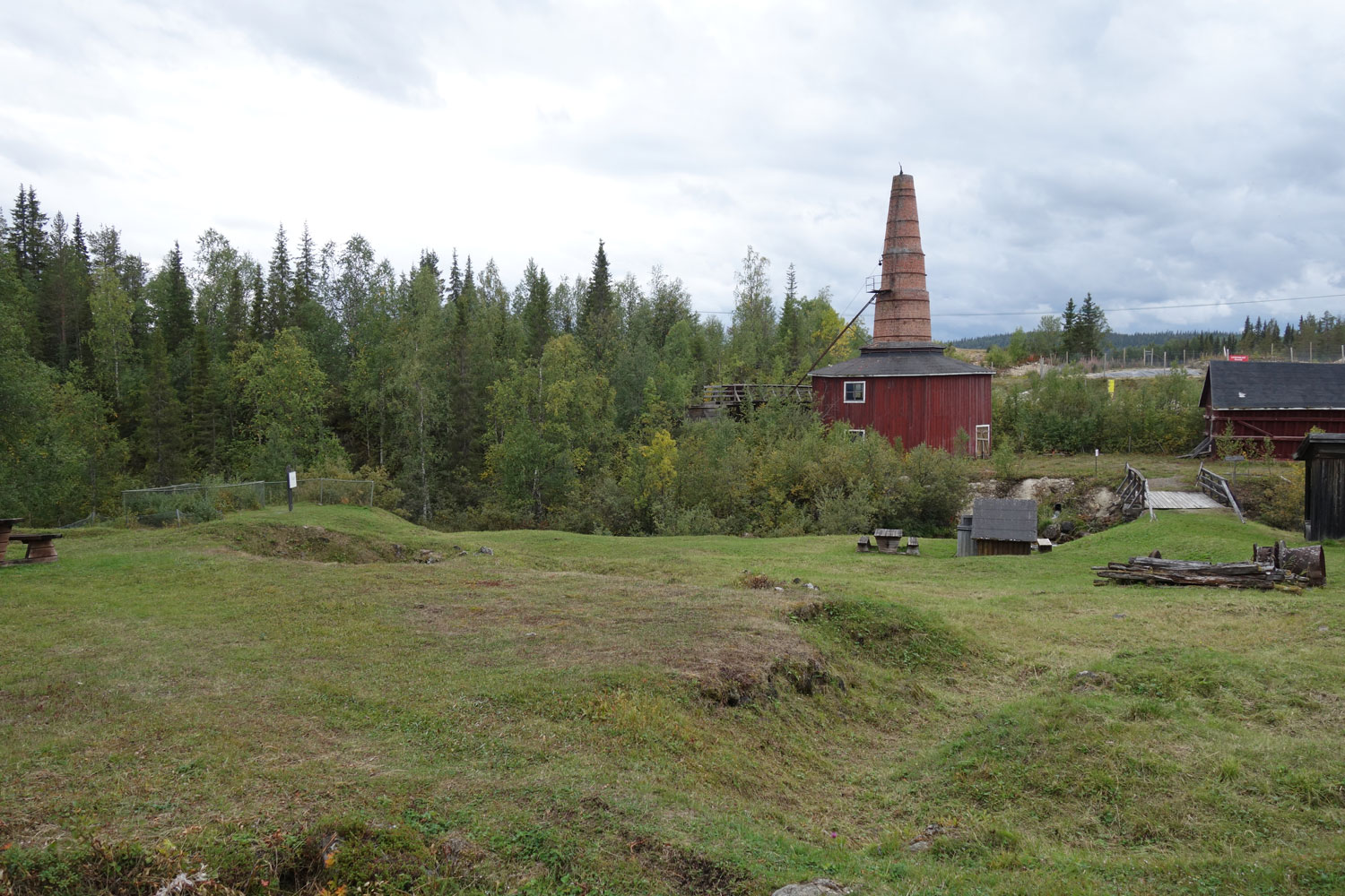 Old blast furnace in Masugnsbyn with a mining area in the foreground.